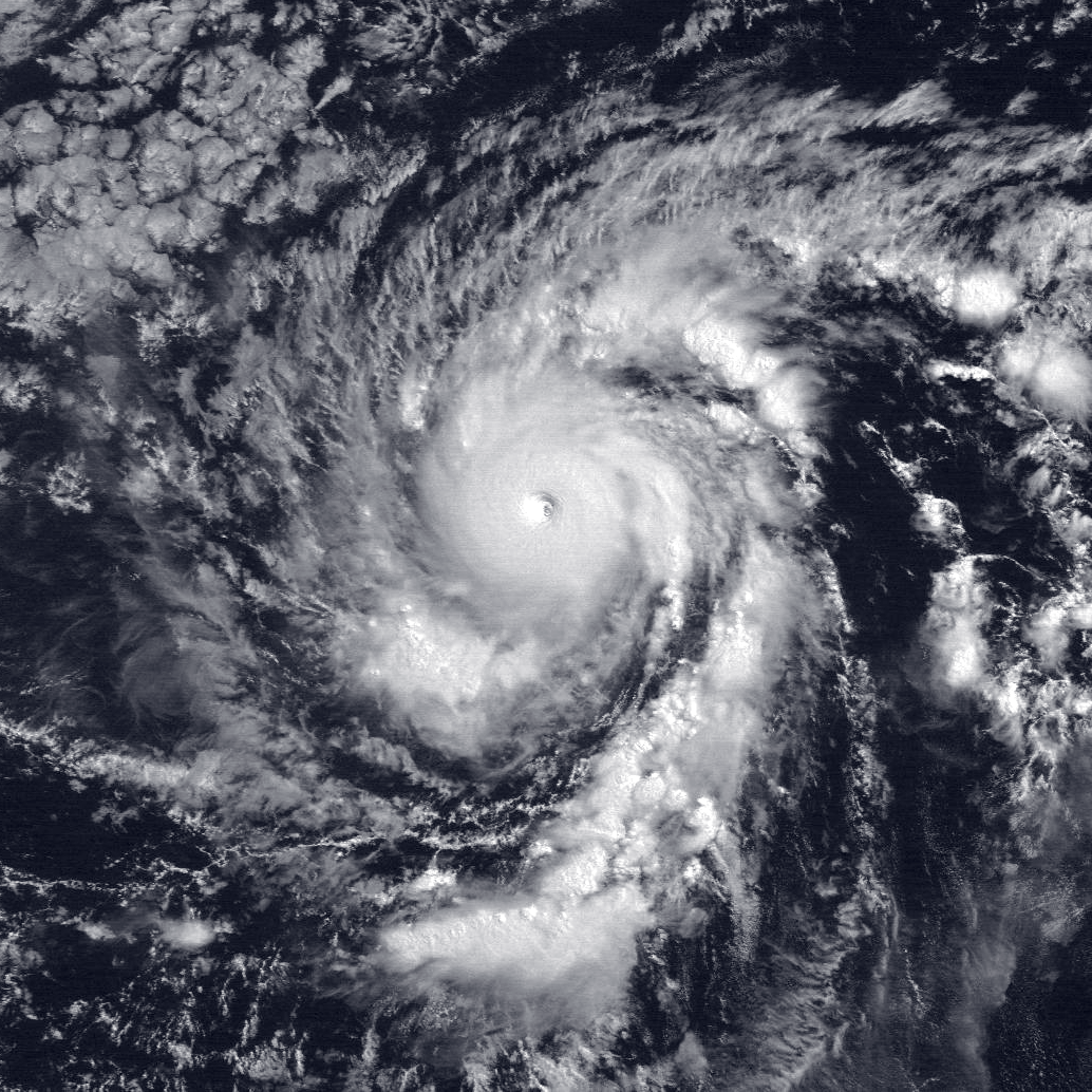 Hurricane Emilia near peak intensity in the central Pacific Ocean on July 19, 1994